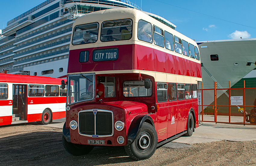 1964 AEC Regent V with East Lancs body of Southampton City Transport. Fleet number 367, registration number BTR 367B.